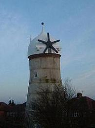 Holgate Windmill with new cap fitted in November 2009.